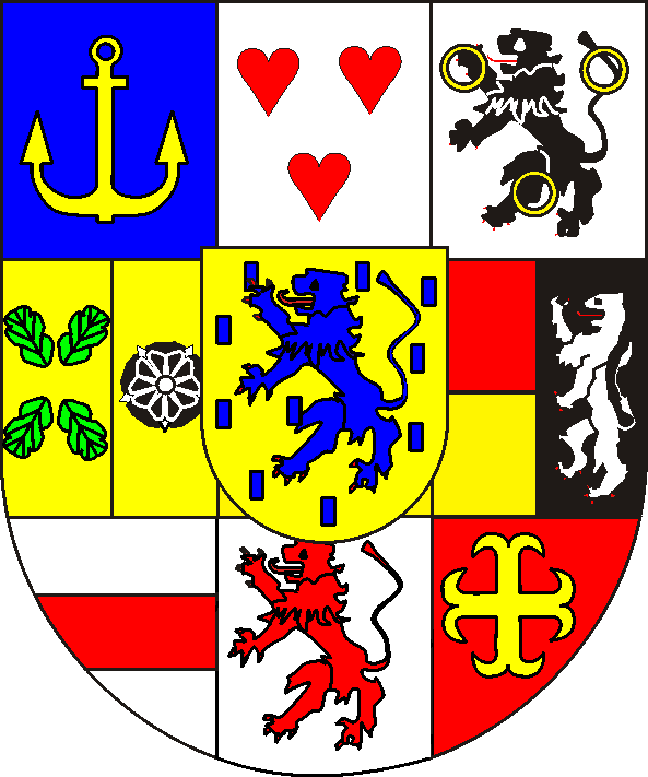 coats of arms of Solms-Hohensolms-Lich; 1: county of lingen; 2: county of Tecklenburg; 3: lordship of Rheda; 4a: lordship of Greifenstein; 4b: lordship of Wildenfels; 6a: lordship of Münzenberg; 6b: lordship of Sonnenwalde; 7: lordship of Kriechingen; 8: lordship of Bacourt; 9: lordship of Pettingen; heart: county of Solms